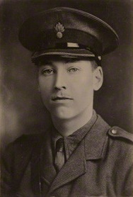 From a postcard published by Beagles. Photo by Ernest Brooks.